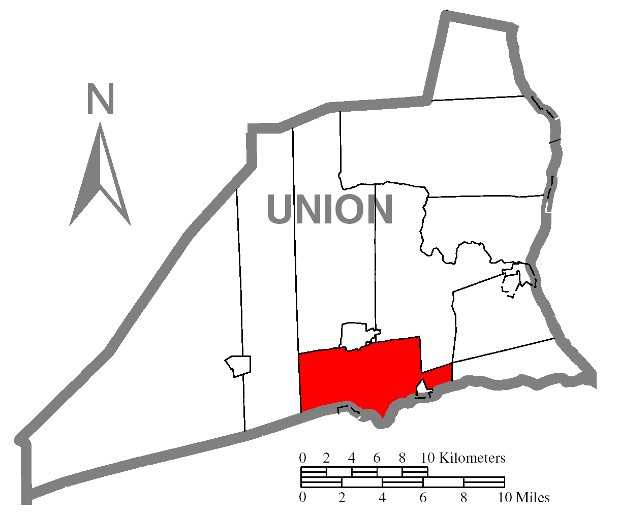 A map of Union County showing Limestone Township, Pennsylvania (alternate) highlighted on the map.